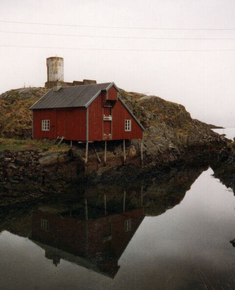 Cod liver oil steamery in Å, Lofoten, Norway.